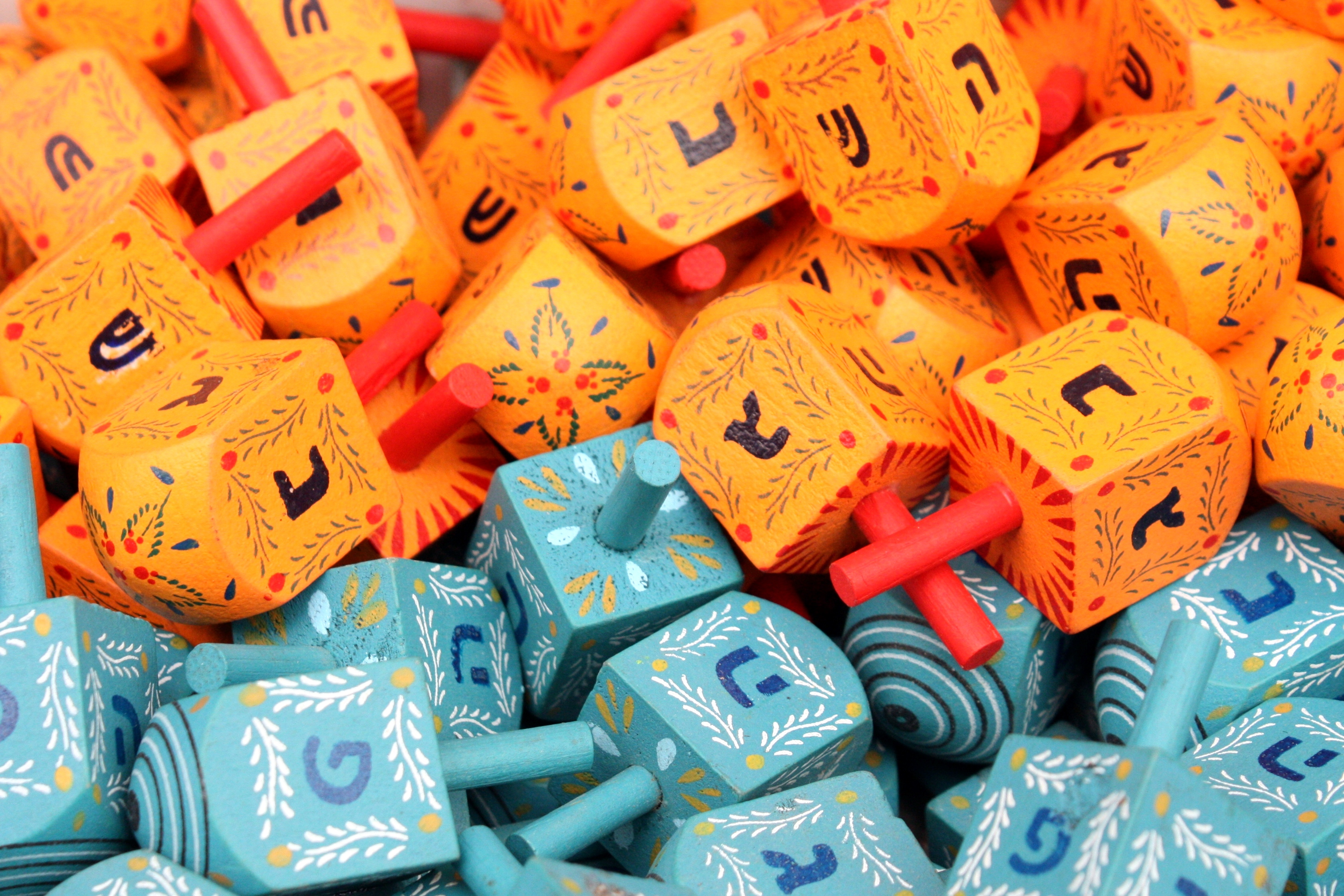 Colorful dreidels for sale in Machne Yehuda market, Jerusalem with Israel specific lettering on blue dreidels (נ ג ה פ) and diasporah lettering on orange dreidels (נ ג ה ש).